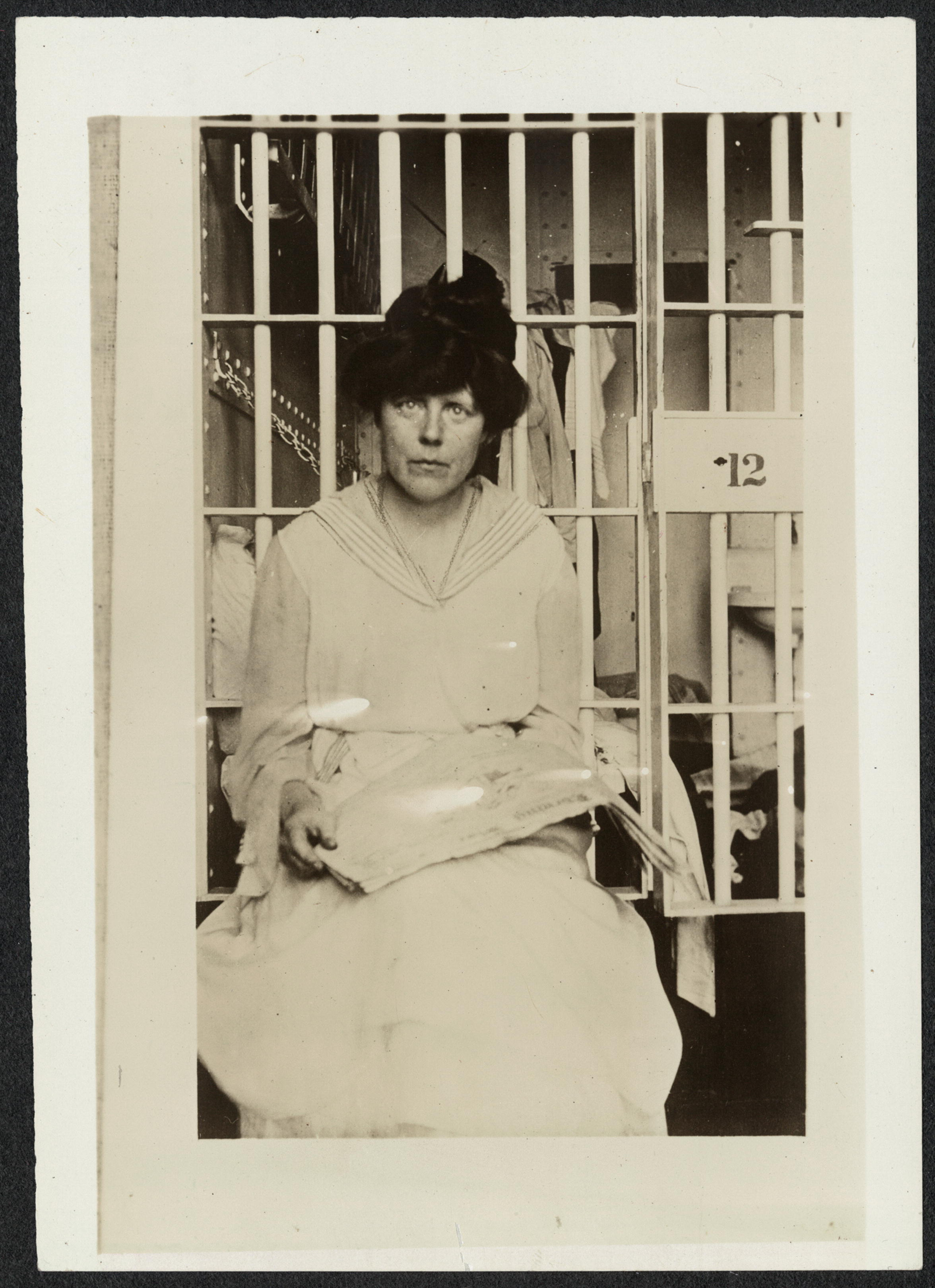 Informal portrait, Lucy Burns, three-quarter length, seated, facing forward, holding a newspaper in her lap in front of a prison cell, likely at Occoquan Workhouse in Virginia. Lucy Burns, of New York City, who with Alice Paul established the first permanent headquarters for suffrage work in Washington, D.C., helped organize the suffrage parade of Mar. 3, 1913, and was one of the editors of The Suffragist. Leader of most of the picket demonstrations, she served more time in jail than any other suffragists in America. Arrested picketing June 1917, sentenced to 3 days; arrested Sept. 1917, sentenced to 60 days; arrested Nov. 10, 1917, sentenced to 6 months; in Jan. 1919 arrested at watchfire demonstrations, for which she served one 3 day and two 5 day sentences. She also served 4 prison terms in England. Burns was one of the speakers on the "Prison Special" tour of Feb-Mar 1919. Source: Doris Stevens, Jailed for Freedom (New York: Boni and Liveright, 1920), 356.